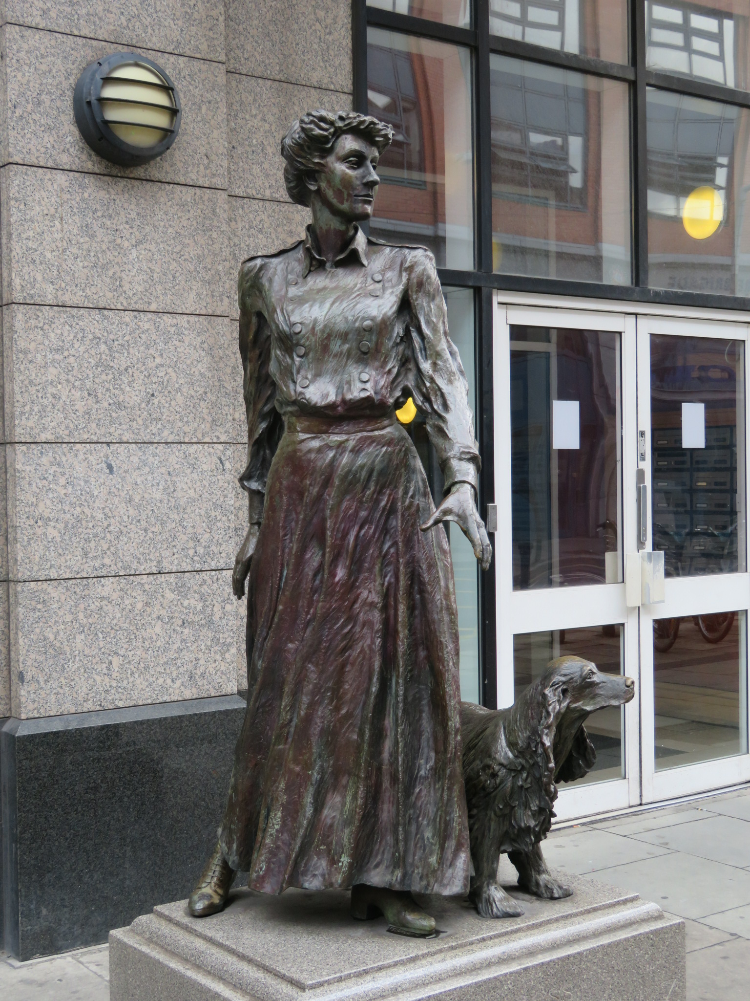 A bronze statue of Countess Constance Markievicz and her cocker spaniel called Poppet, by Elizabeth McLaughlin (1998), in front of Sport & Fitness Markievicz (or Markievicz Leisure Centre, or Markievicz Pool and Gym) on Townsend Street, Dublin. In his biography of Markievicz, the writer Seán Ó Faoláin wrote that Poppet was "disliked immensely and regarded only as an old dog you'd love to root [kick], and behind her [Markievicz's] back Poppet did get an occasional root!" In The Irish Times of 21 October 2000, Robert O'Byrne wrote of McLaughlin's statue of Markievicz that it "bears almost no resemblance to the rebel Countess, it is coarsely executed, a gift shop item enlarged." As for Markievicz herself, she was a revolutionary, suffragist and government minister.